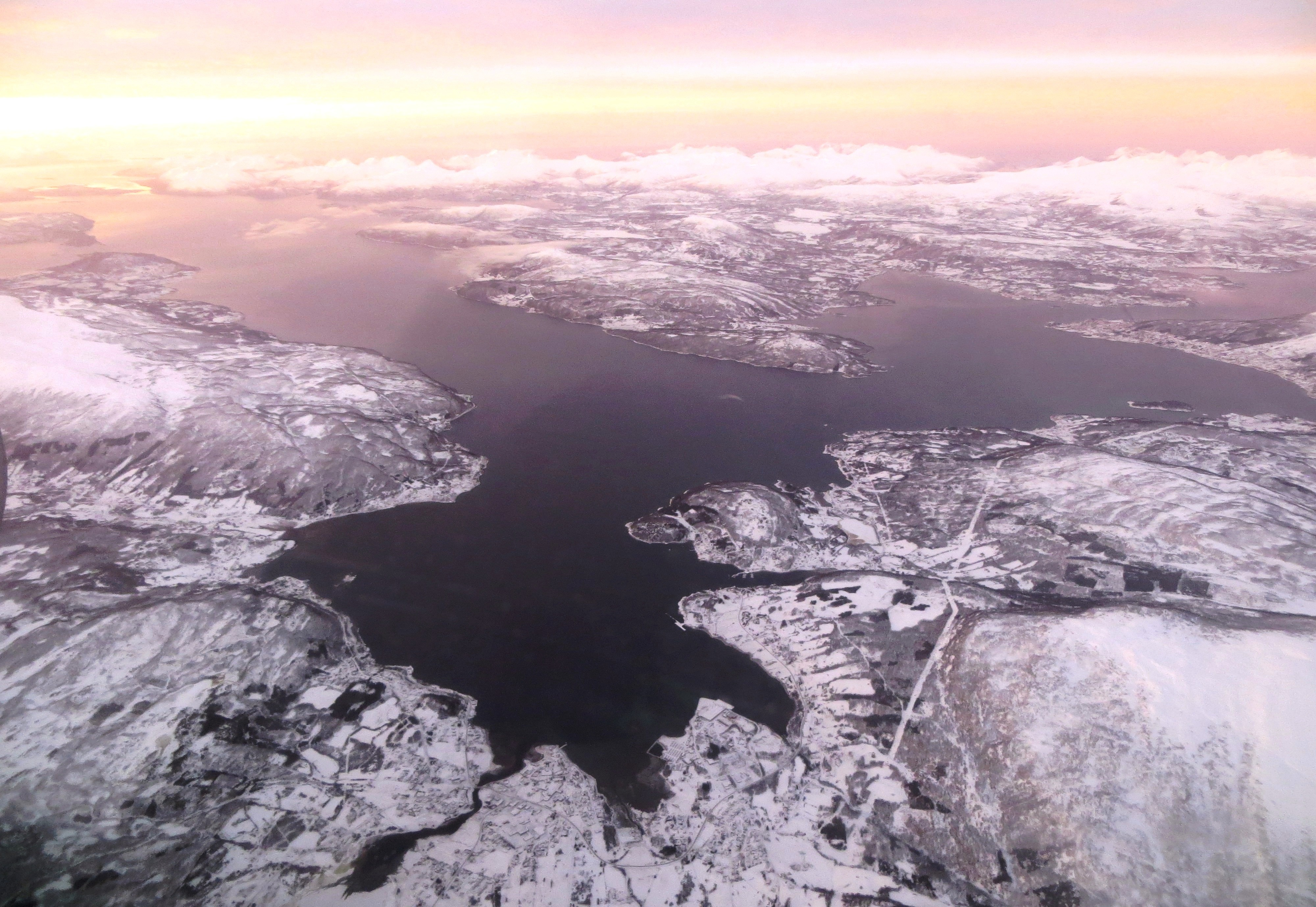 Aerial view from the east towards west, over Sørreisa and Lenvik municipalities, with Reisafjord in the foreground, Solbergfjord to the upper left, Finnfjord to the upper right, and Senja Island in the background - central Troms county (Norway)